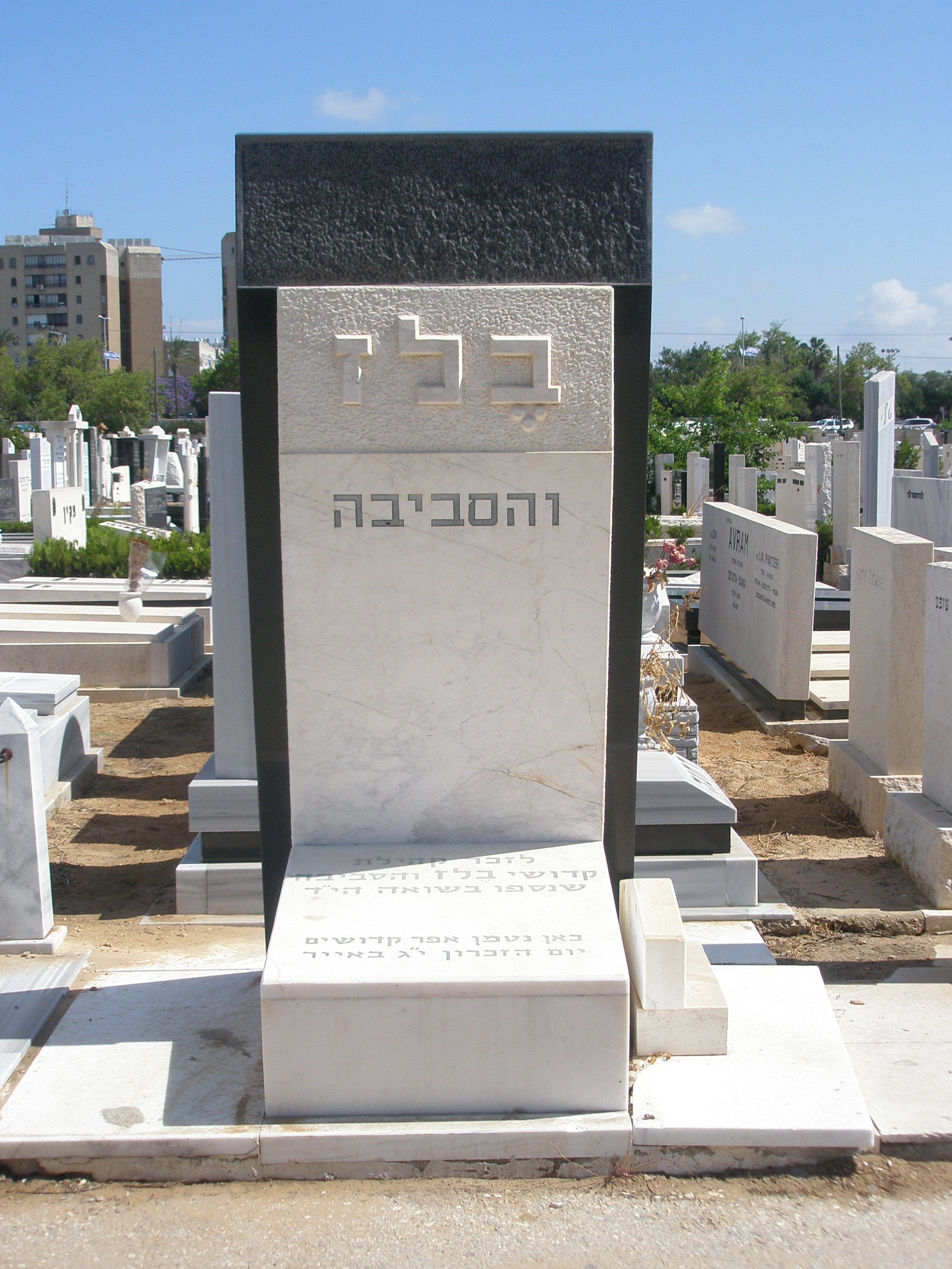 Belz memorial at Holon Cemetery